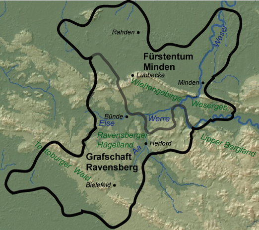 Prussian Minden-Ravensberg within Germany as of 1806. It shows also the bordering German States and the two parts of Minden-Ravensberg: i.e. Grafschaft Ravensberg (Duchy of Ravesberg) and Fürstentum Minden (Duchy of Minden)